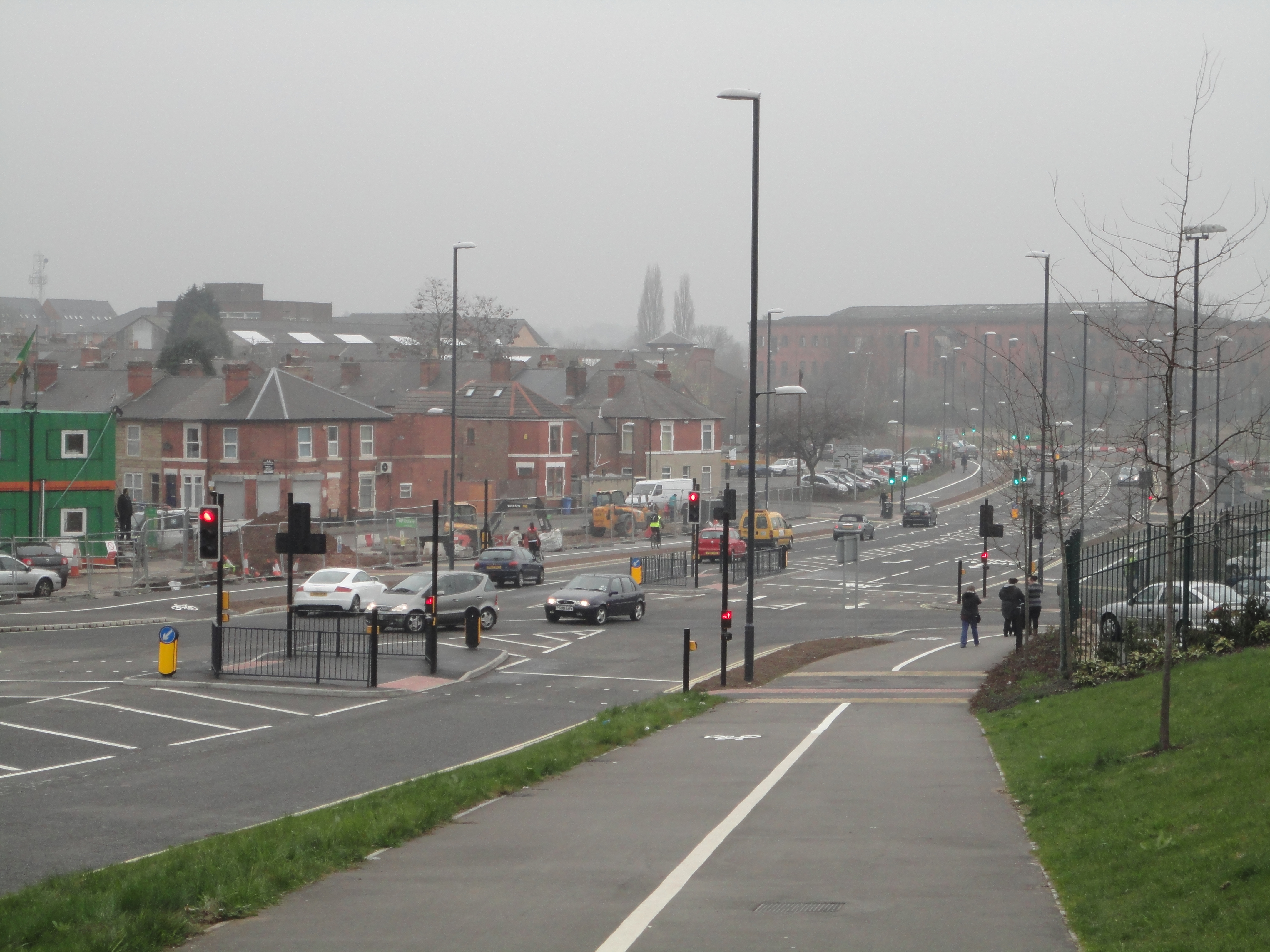 Junction of Mercian Way with Abbey Street, Derby, England, looking northeast towards Uttoxeter New Road Roundabout